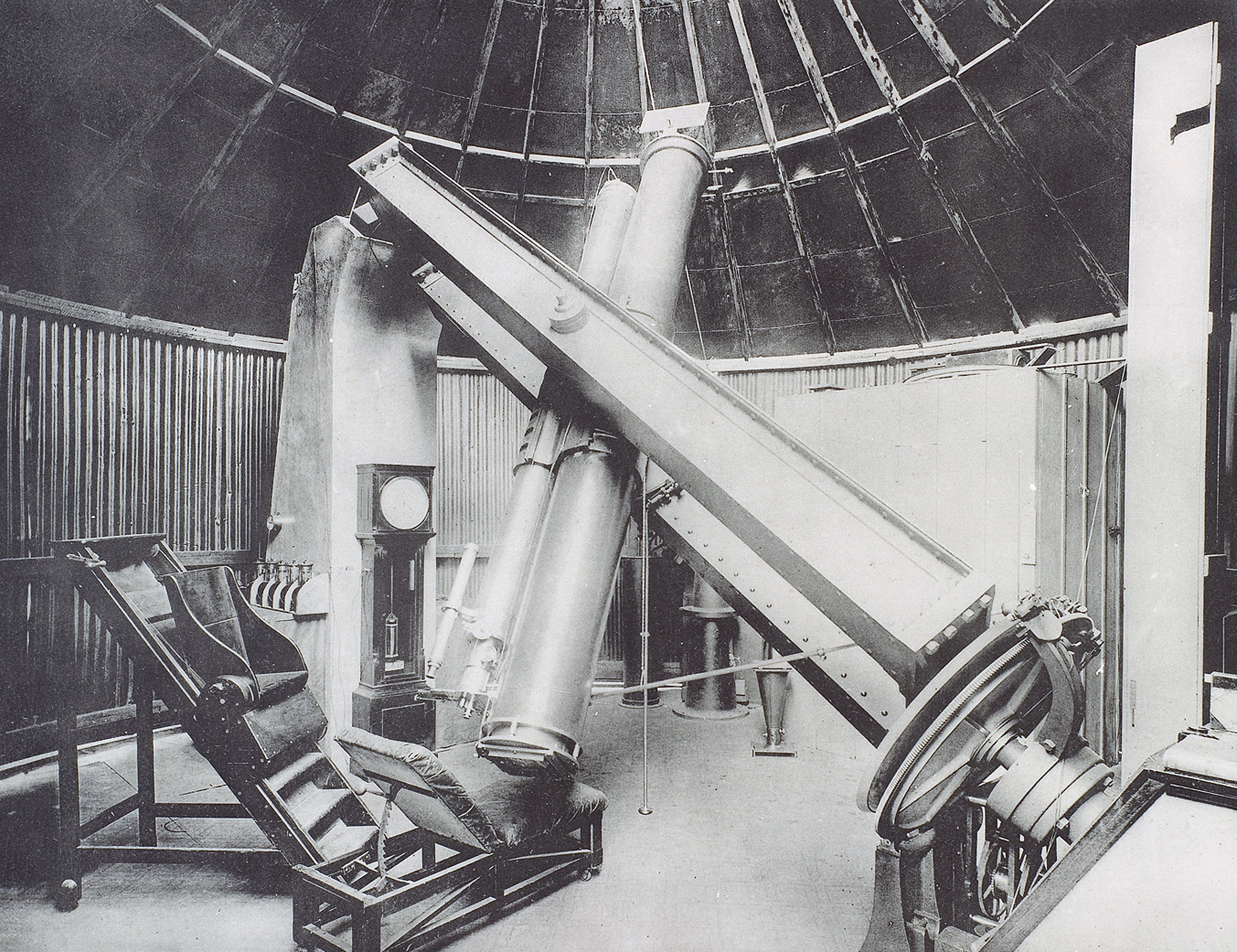 Photographer unknown, the Sydney ‘Star Camera’ at Red Hill Observatory, photo-mechanical collotype print from original publication by H. C. Russell, Description of the Star Camera at The Sydney Observatory, Alfred James Kent, Government Printe 1892